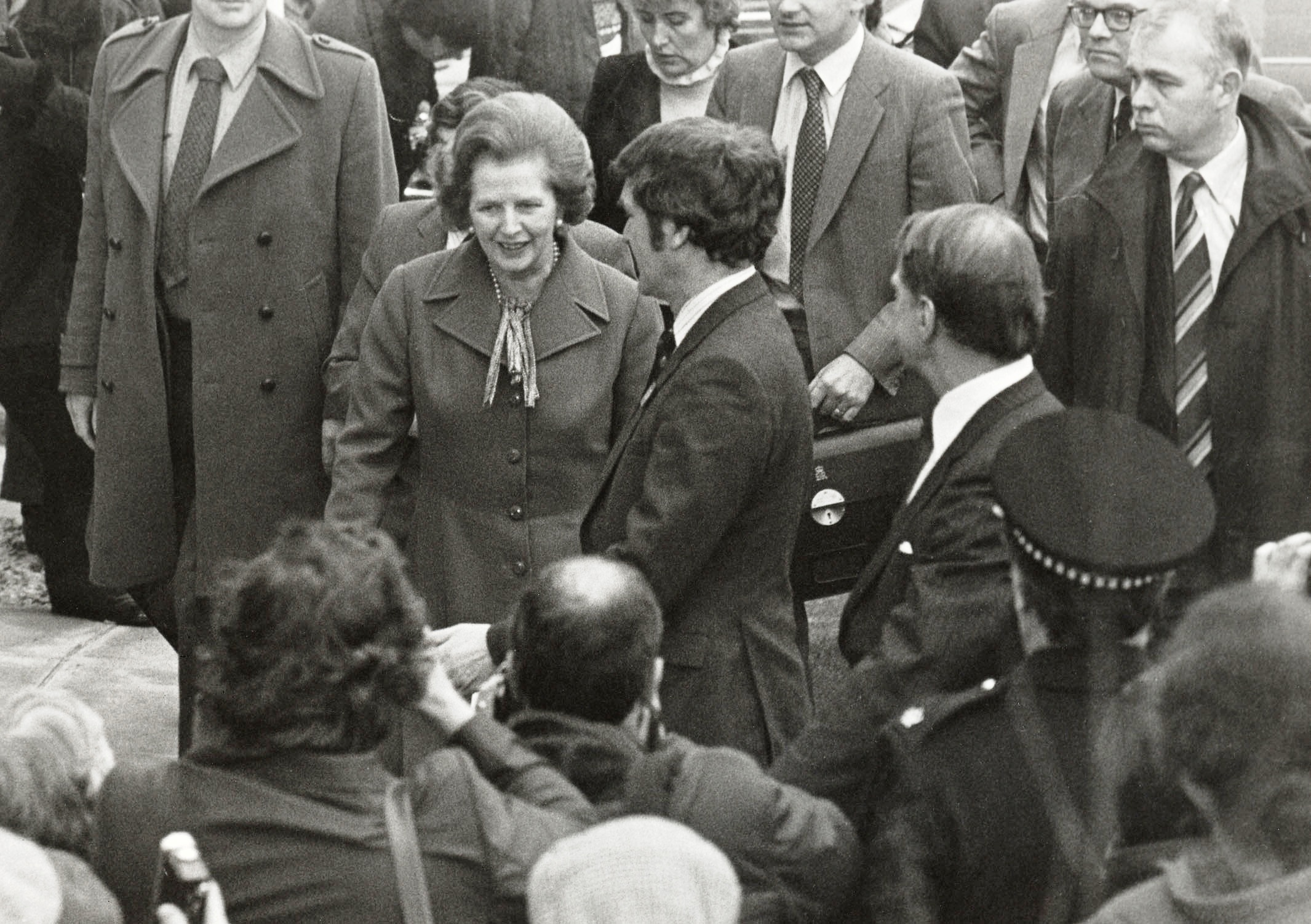 Margaret Thatcher on a visit to Salford. From the University Archives and Special Collections.